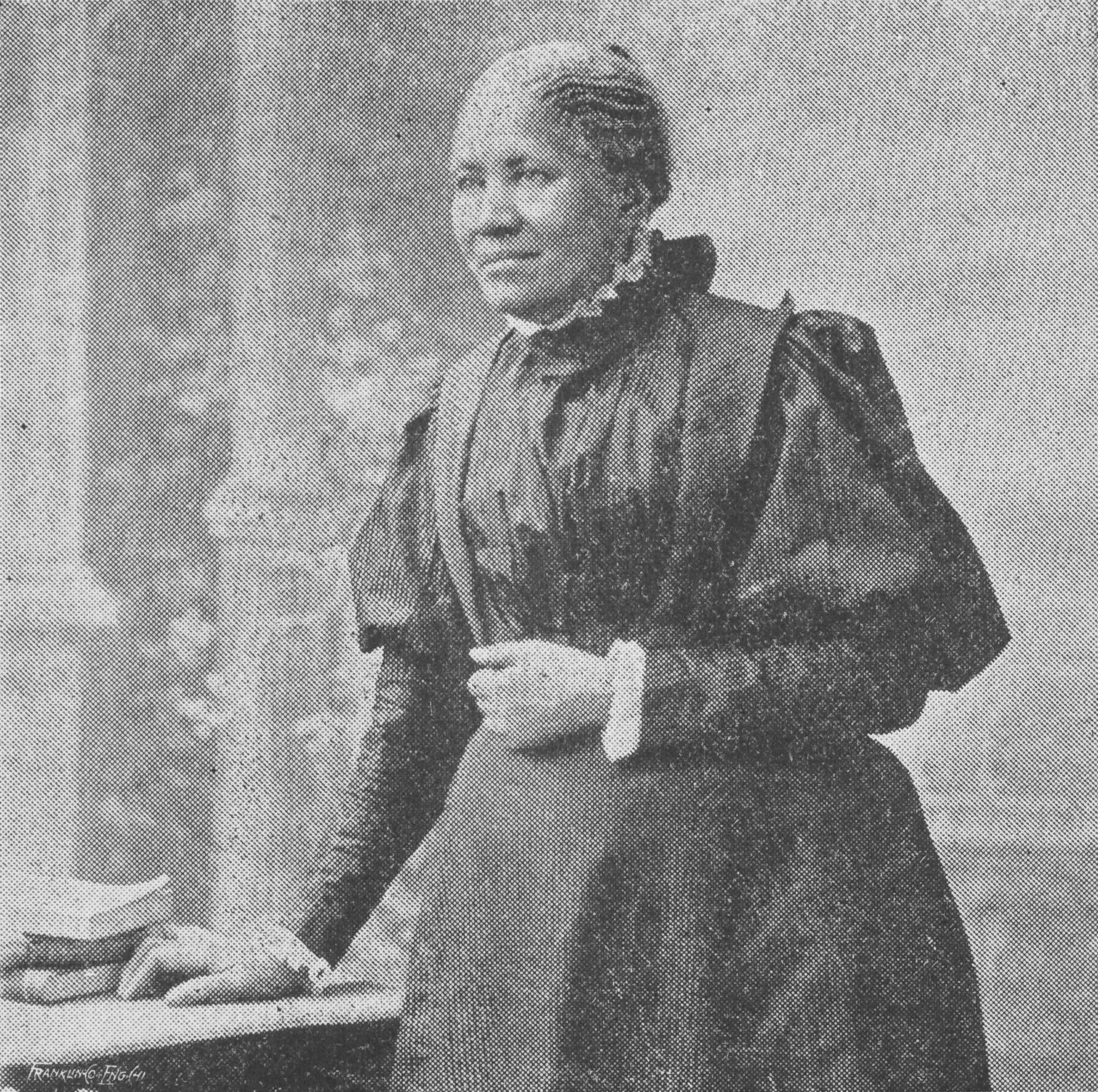 Mrs. F. E. W. Harper, Author and Lecturer, Philadelphia, Pa